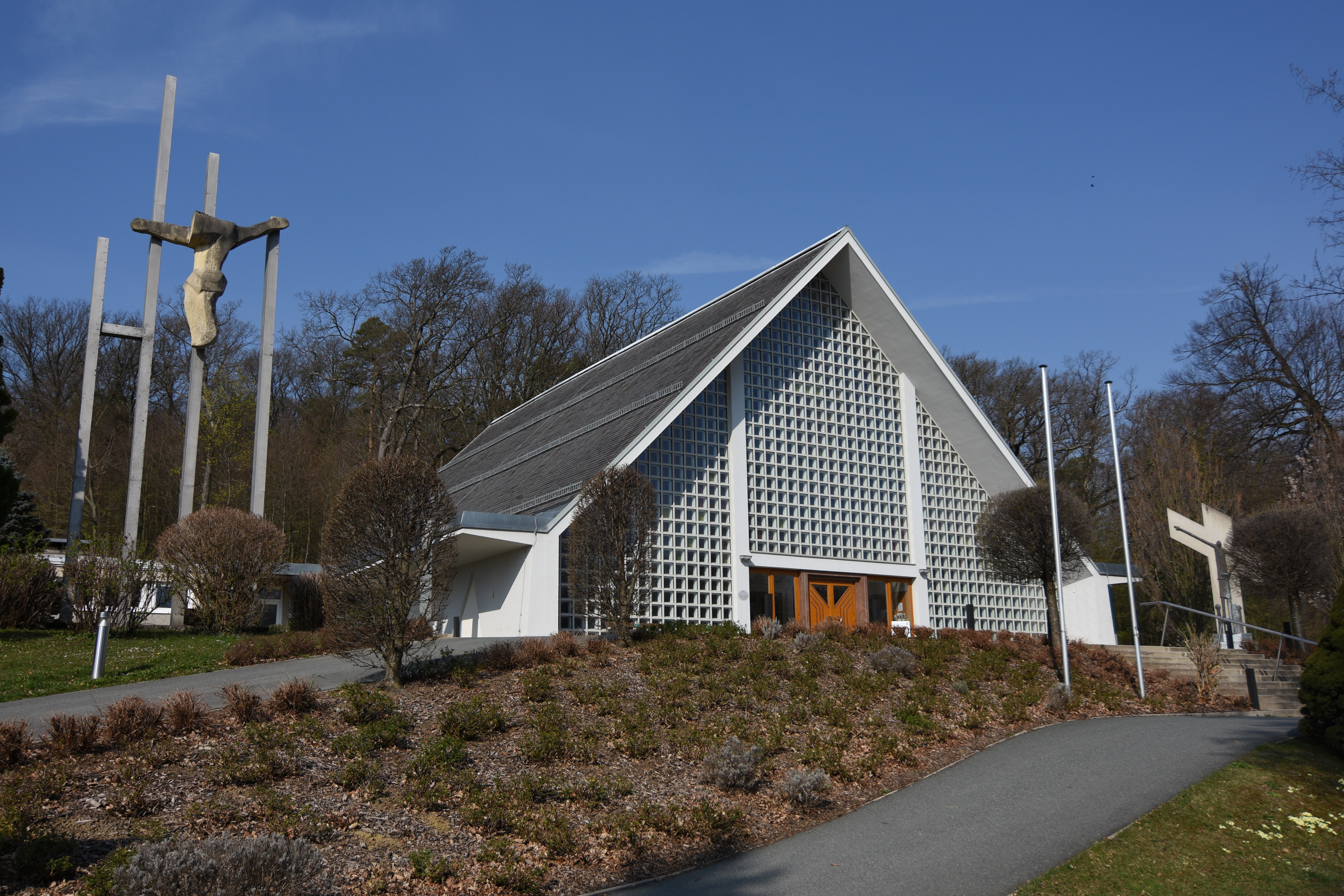 Church hl. Johannes der Täufer, Bad Tatzmannsdorf